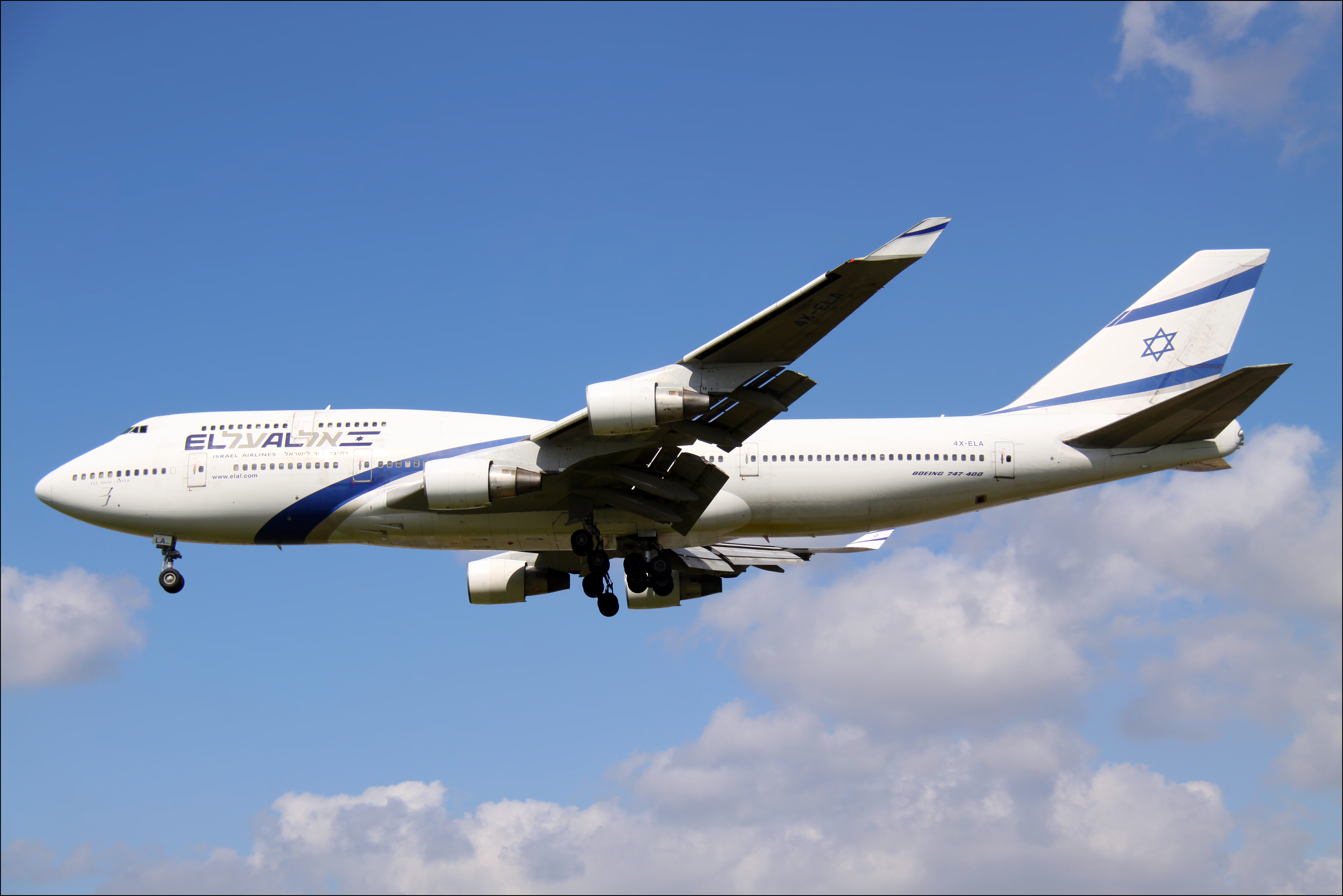 4X-ELA Boeing B.744 ELAL Israel Airlines At London Heathrow